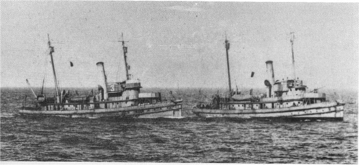 USS Patapsco (Fleet Tug #10) left, and USS Patuxent (Fleet Tug #11) right, participate in minesweeping operations in the North Sea in 1919. US Navy photo NH 45255 from DANFS.